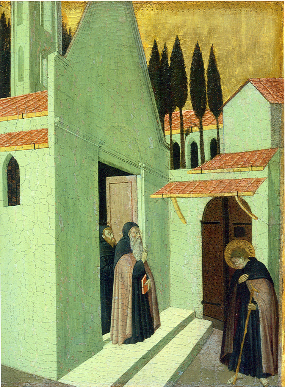 Saint Anthony Leaving His Monastery Master of Osservanza Tempera on panel; 47.2 x 35 cm (whole panel), 46 x 34 cm (painted surface) Washington, National Gallery of Art